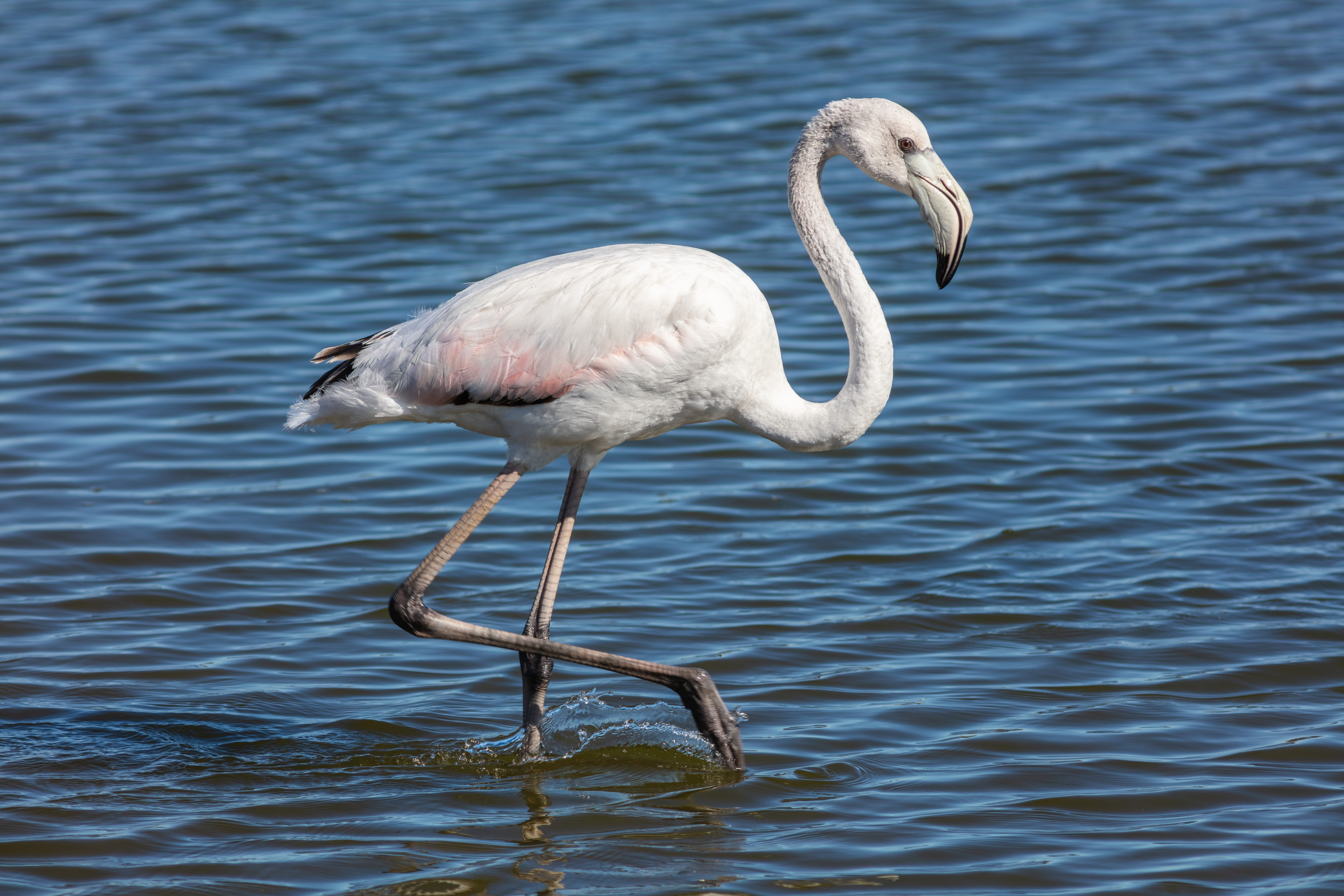 Exemplar of Greater flamingo (Phoenicopterus roseus), Walvis Bay, Namibia.